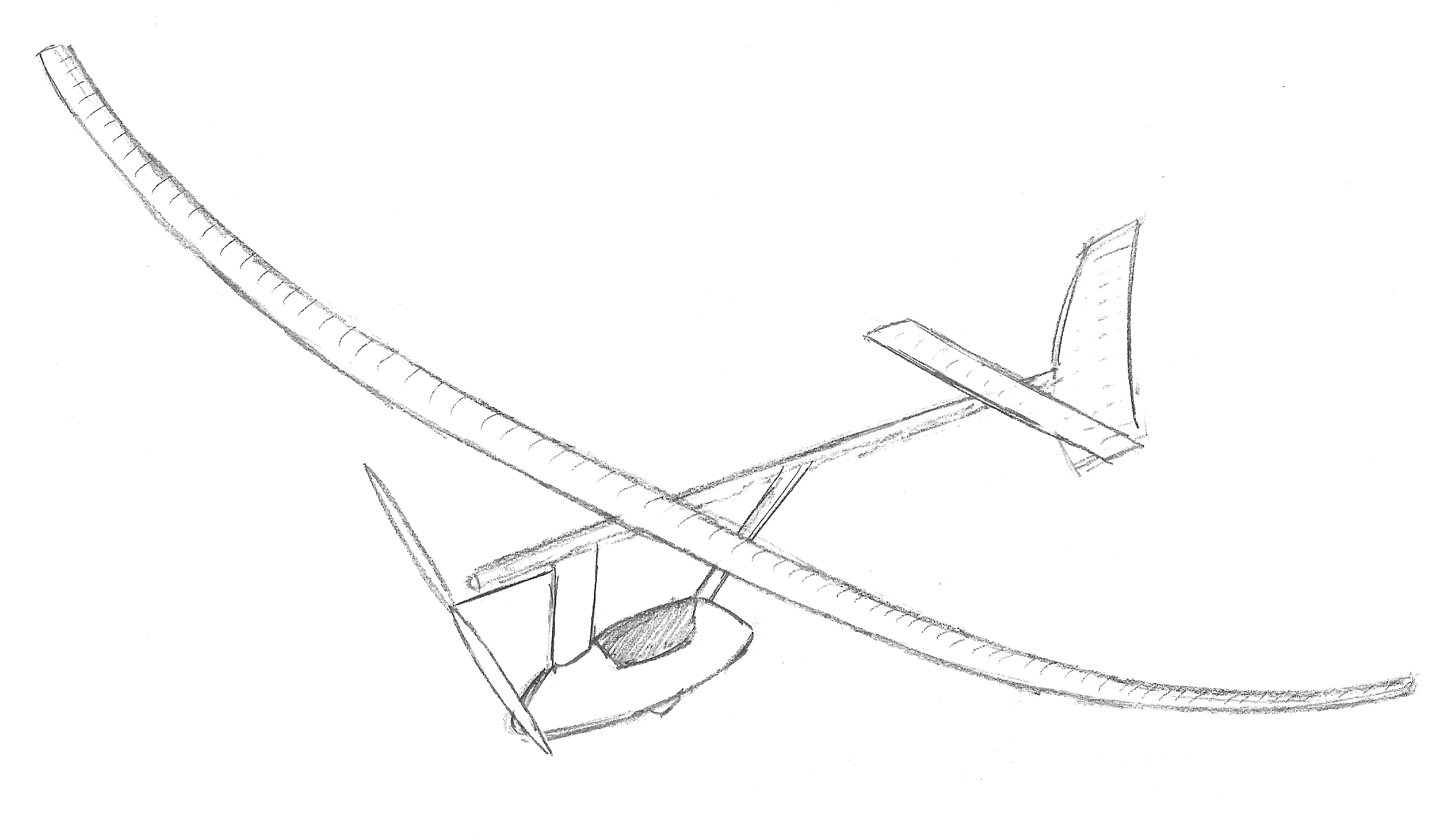 This is an isometric concept view of the PSU Zephyrus human powered aircraft